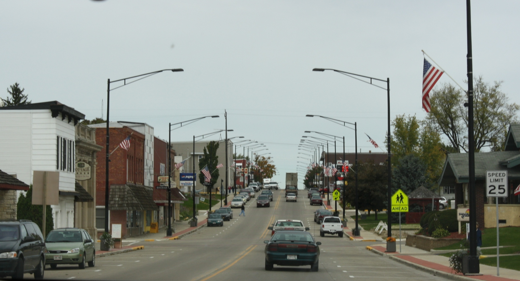 Looking north at downtown Fennimore, Wisconsin on U.S. Route 18 / U.S. Route 61.